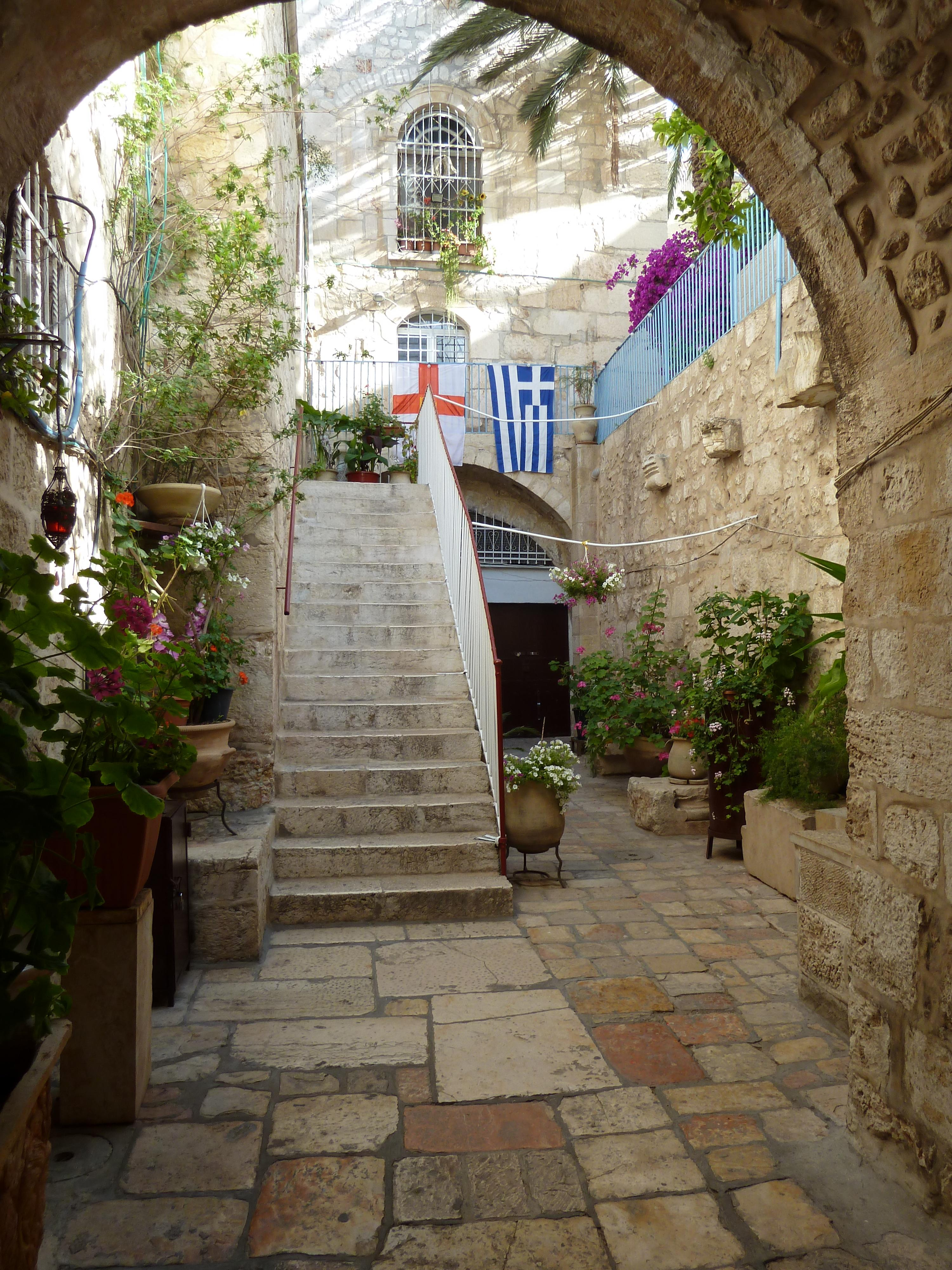 Old Jerusalem, Gethsemane Greek Orthodox Monastery, courtyard, stairs and flags